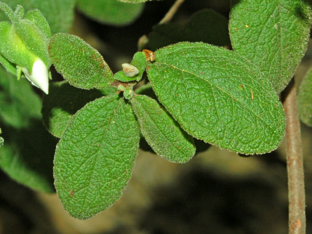 Cistus salviifolius - S. Bernardo, Genova, Italy